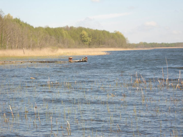 Woswin lake as seen from Oswino